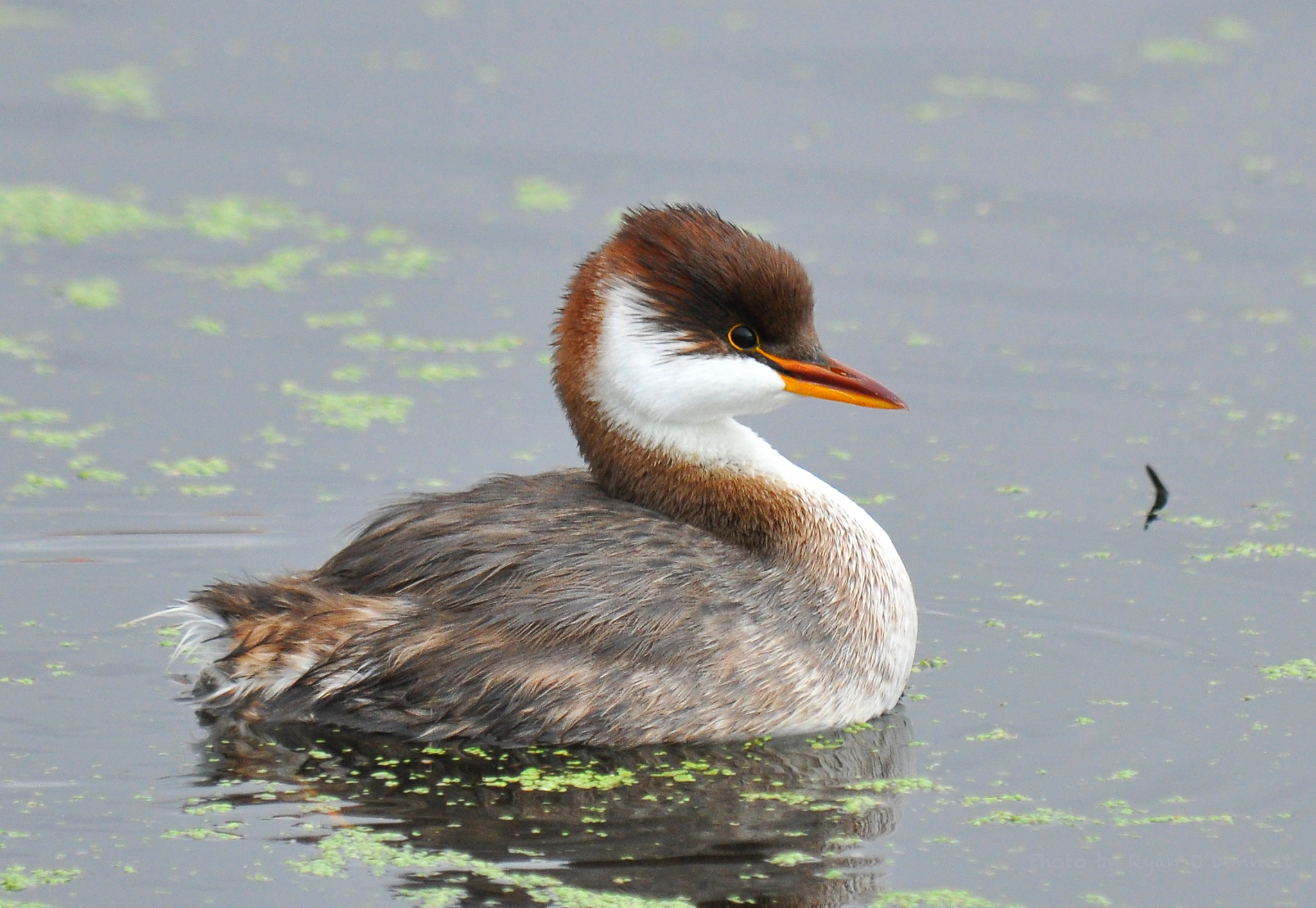 Titicaca Grebe photographed by Ryan O'Donnell in the Puno harbor, Lake Titicaca, Peru on 25 September 2013.